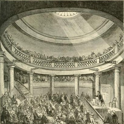 Interior view of the Blackfriars Rotunda, 1820. From Old and New London : a narrative of its history, its people, and its places (1873), by Edward Walford. Author: Thornbury, Walter, 1828-1876